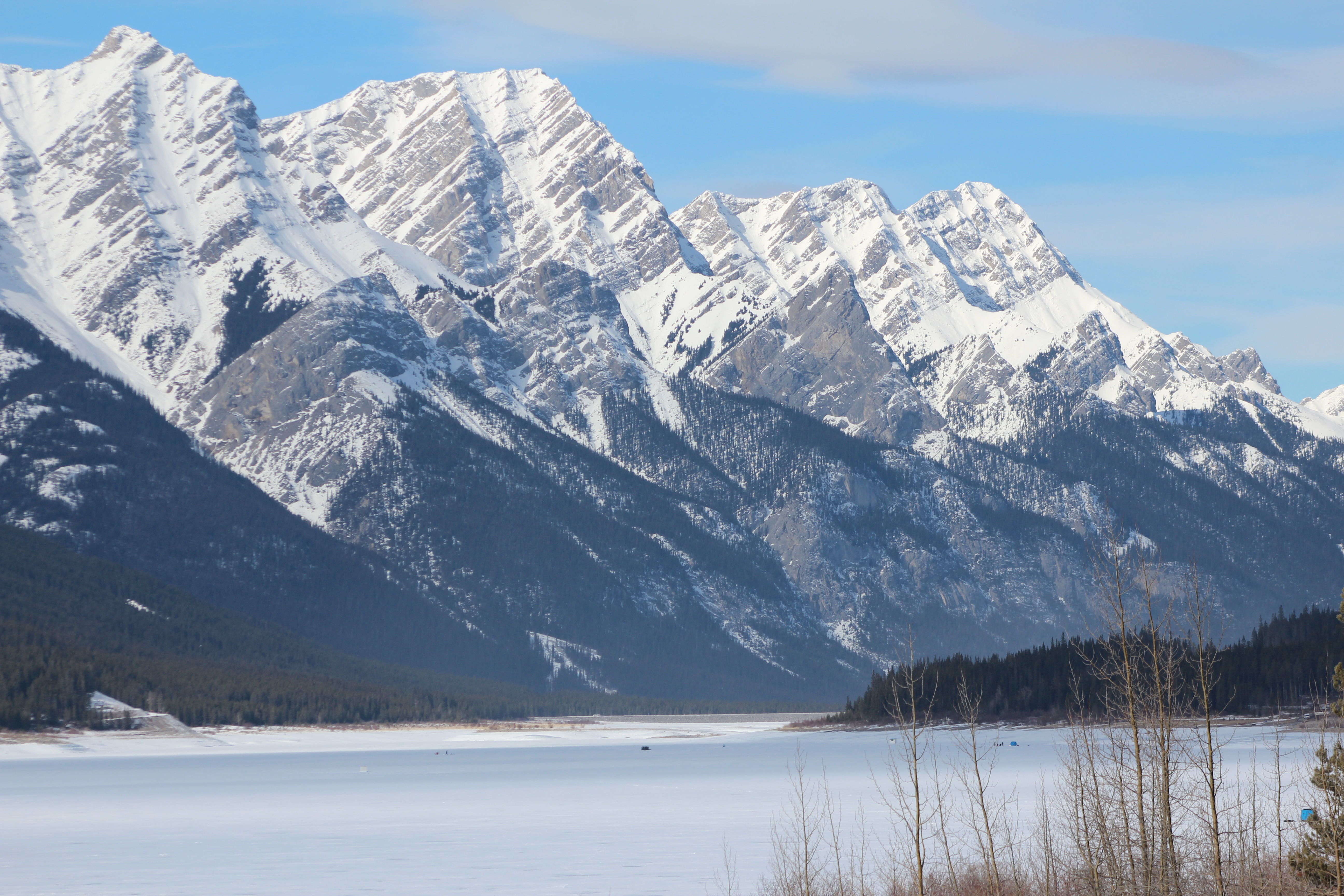 A very nice view down the valley, the further south I went the more snow there was, 60 kms later there was some really good snow amounts for sure.